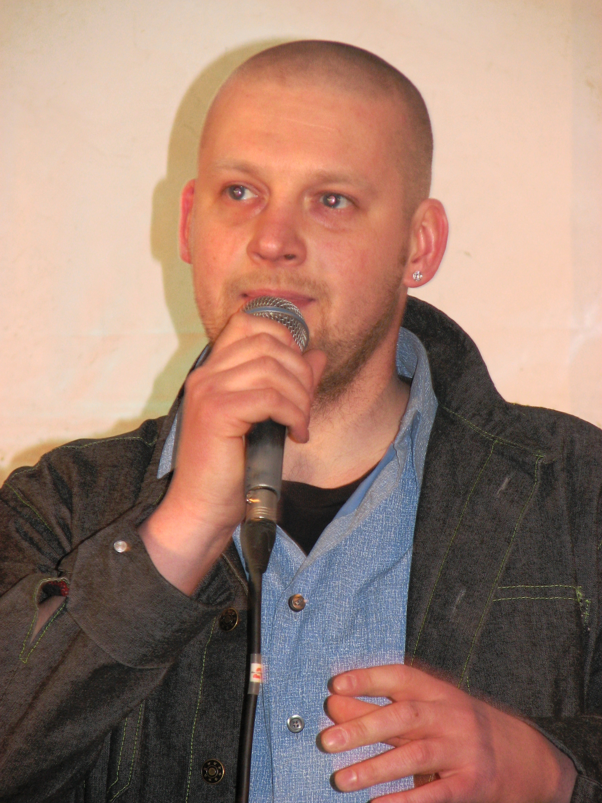 Päär Pärenson performing in Tallinn Literature Festival HeadRead 2010.